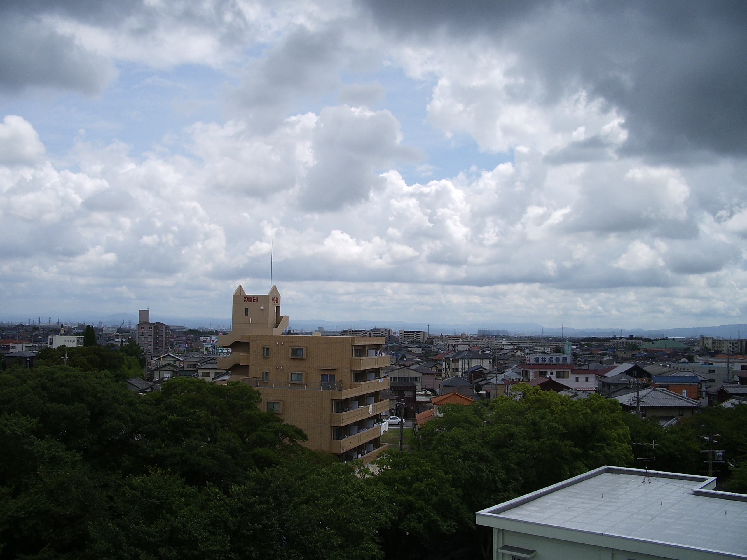 View of Ooyama Park in Takahama City, Aichi Prefecture, Japan.